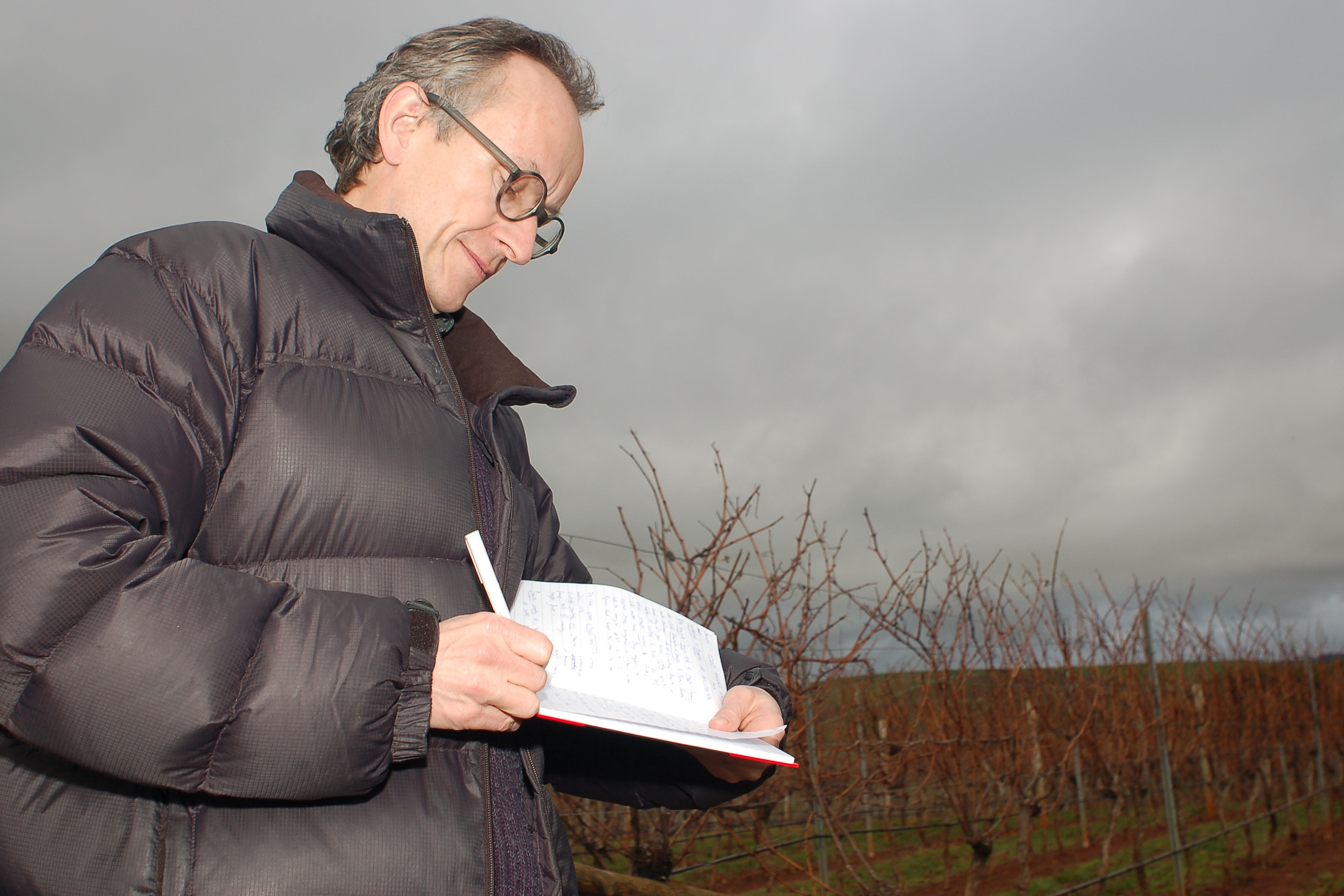 Wine critic Andrew Jefford making notes at a vineyard in Tasmania, Australia